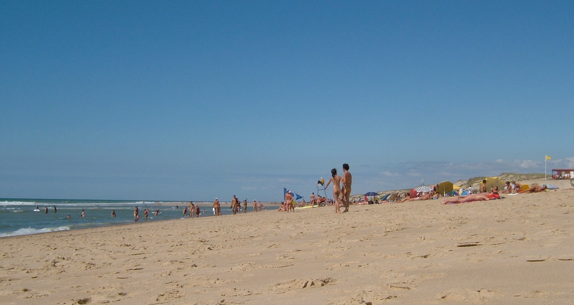 CHM-Montalivet (naturist resort) (CHM for "Centre Hélio-Marin", "center of sun and sea") is the world's first naturist holiday resort located south of Montalivet, in Vendays-Montalivet, France. The site contains an area of protected dunes that open onto the long Aquitaine beach and the Atlantic Ocean. A classic naturist beach, showing the controlled bathing (blue flags), and mixed ages and genders. The first stretch of water is the formation of a Baïne, then the sand spit then the Ocean.